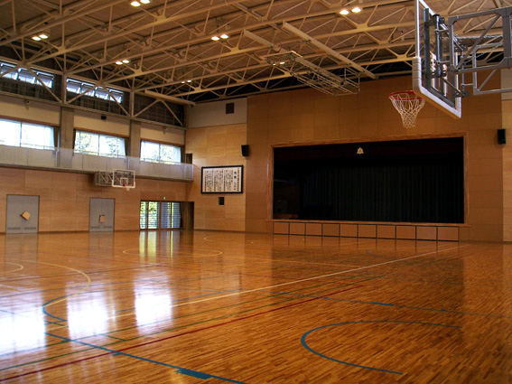 Gymnasium of the Chiba Prefectural Inba Meisei High School